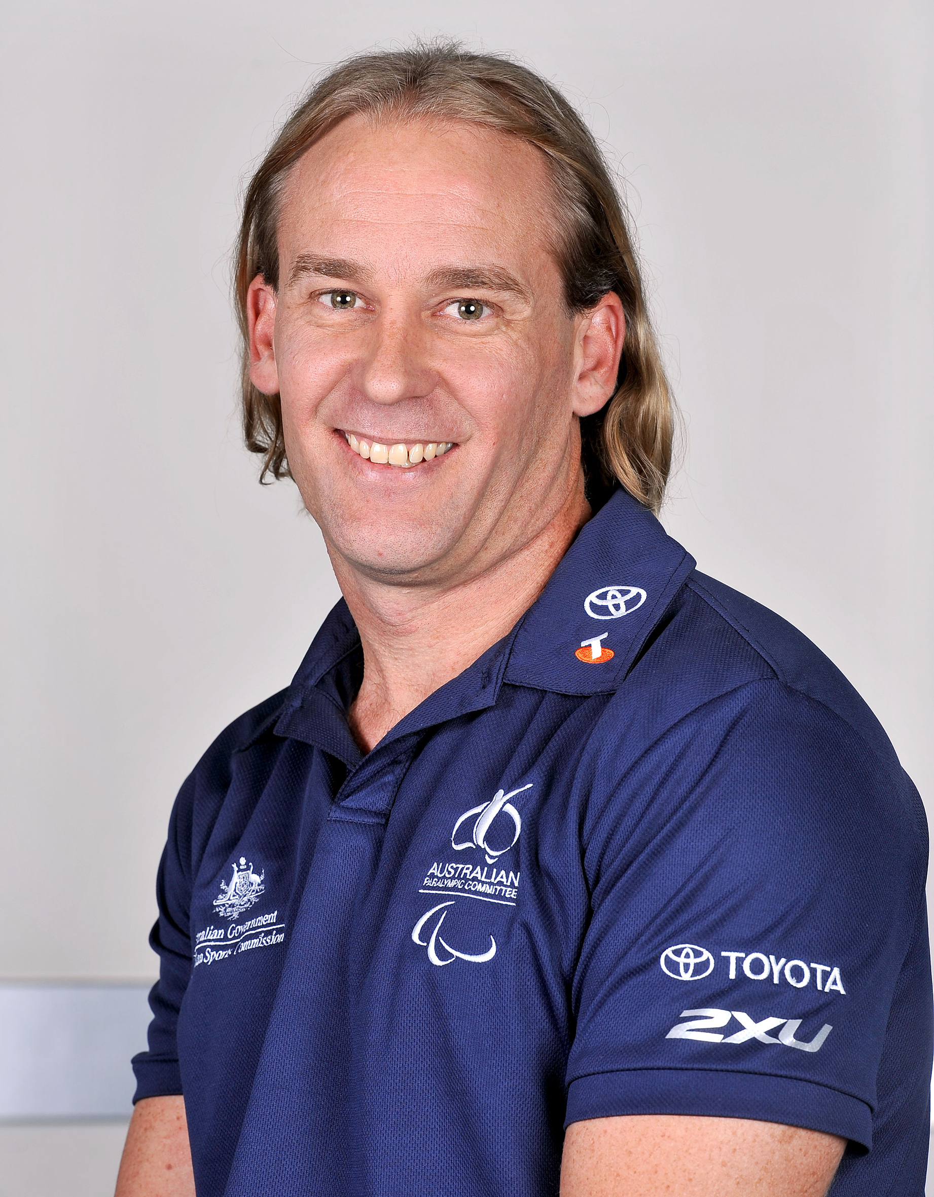 Portrait of Australian cyclist Nigel Barley, 2012 Australian Paralympic (shadow) Team athlete